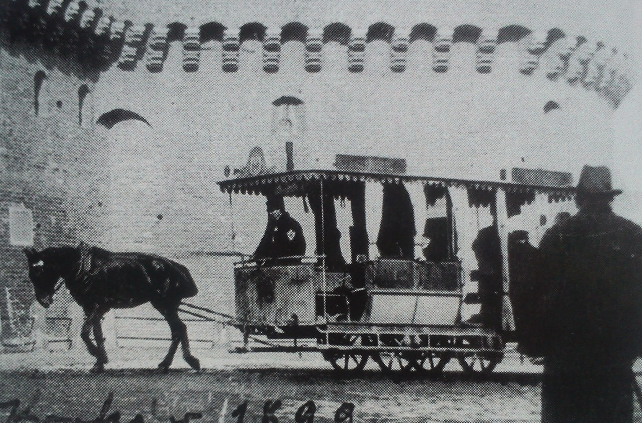 tarmwaj onny pod barbakanem w 1899